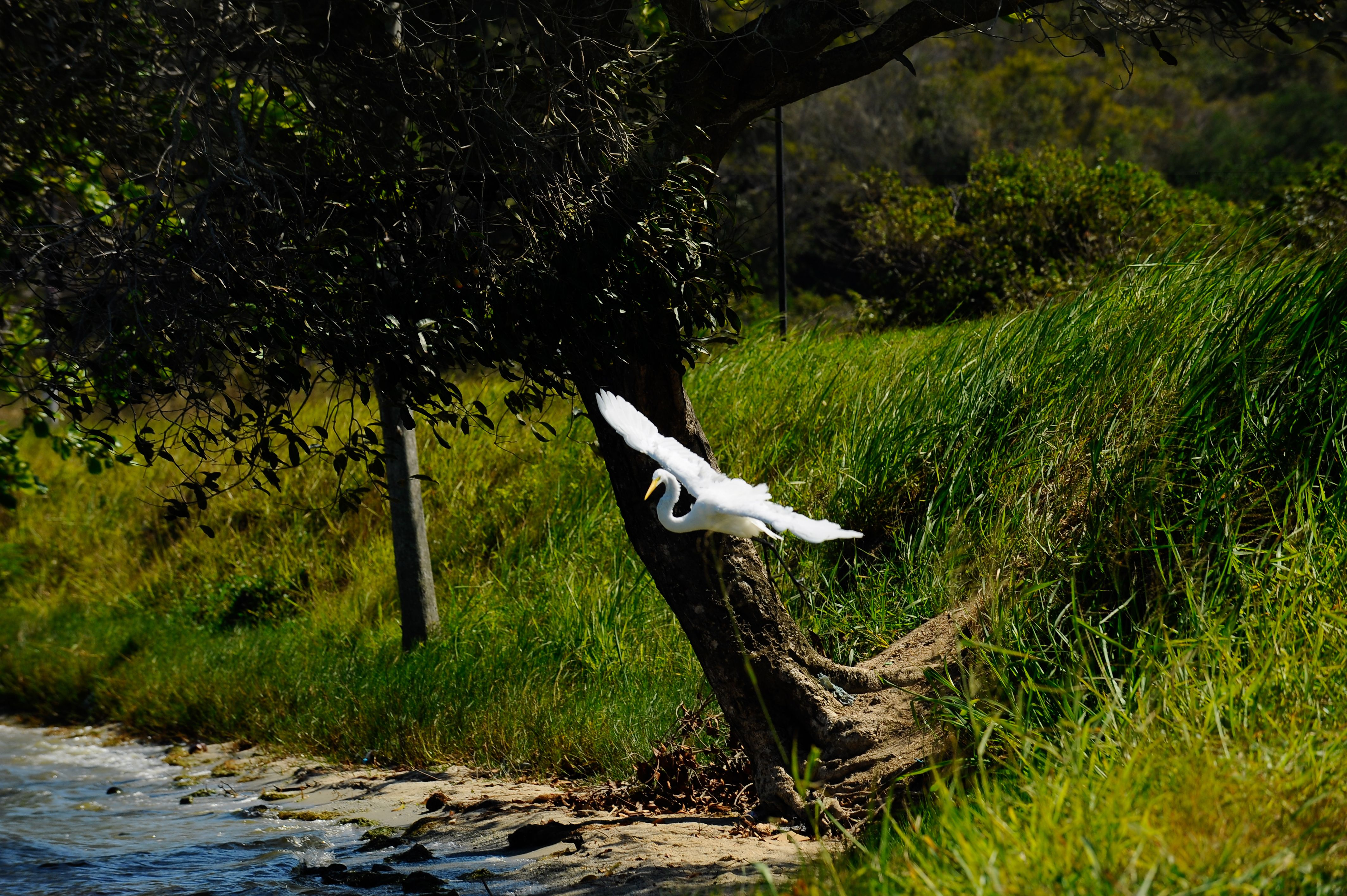 APA de Maricá na Região dos Lagos. Comunidade pesqueira de Zacarias. Foto: Tânia Rêgo/Agência Brasil